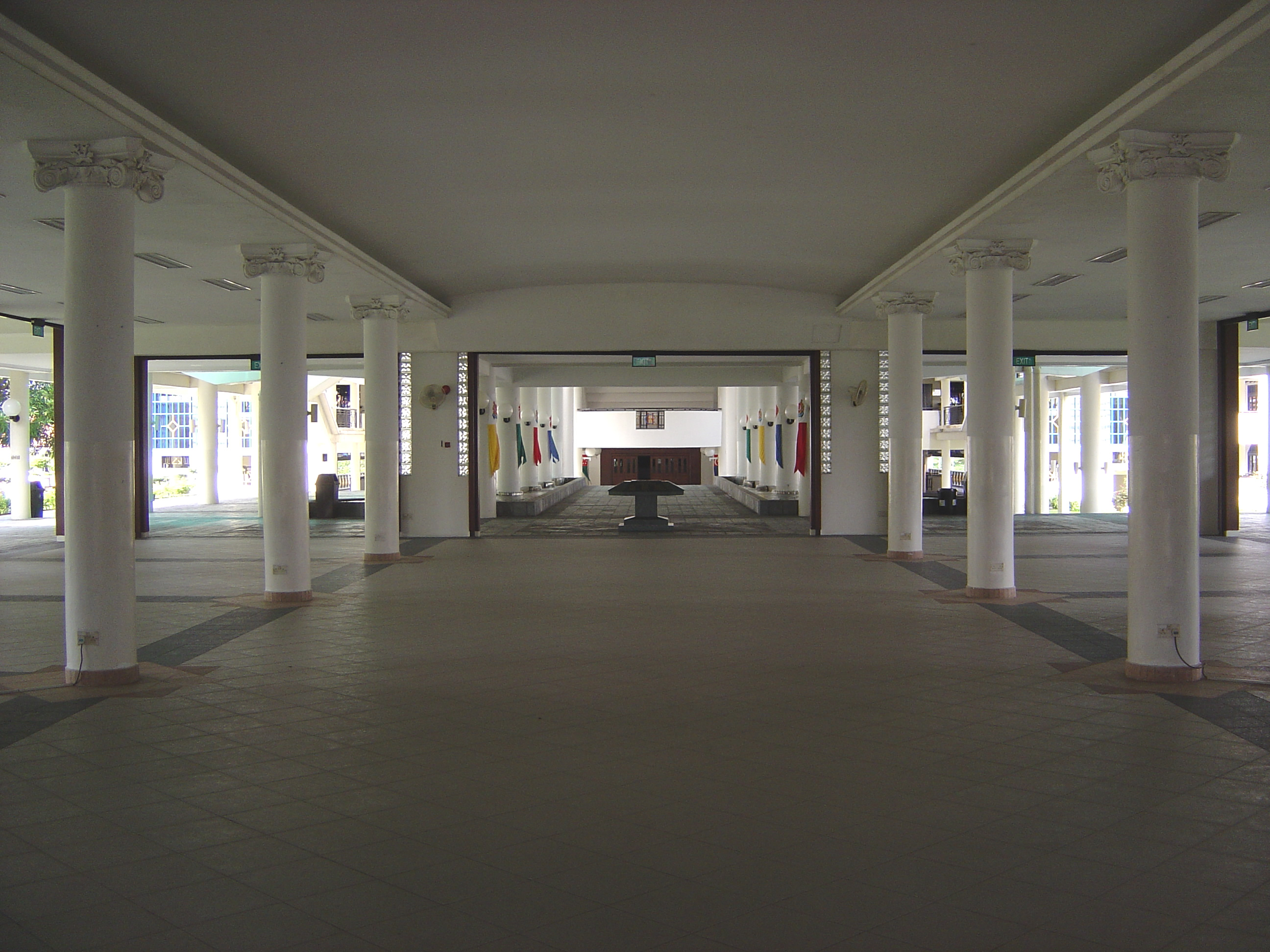 The Oei Tiong Ham Memorial Hall in Hwa Chong Institution, situated directly below the Kong Chian Library (光前图书馆) in the high school section.